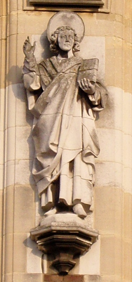 The statue of St Barnabas on St Barnabas Church in Mitcham, Surrey. A work by the sculptor Nathaniel Hitch